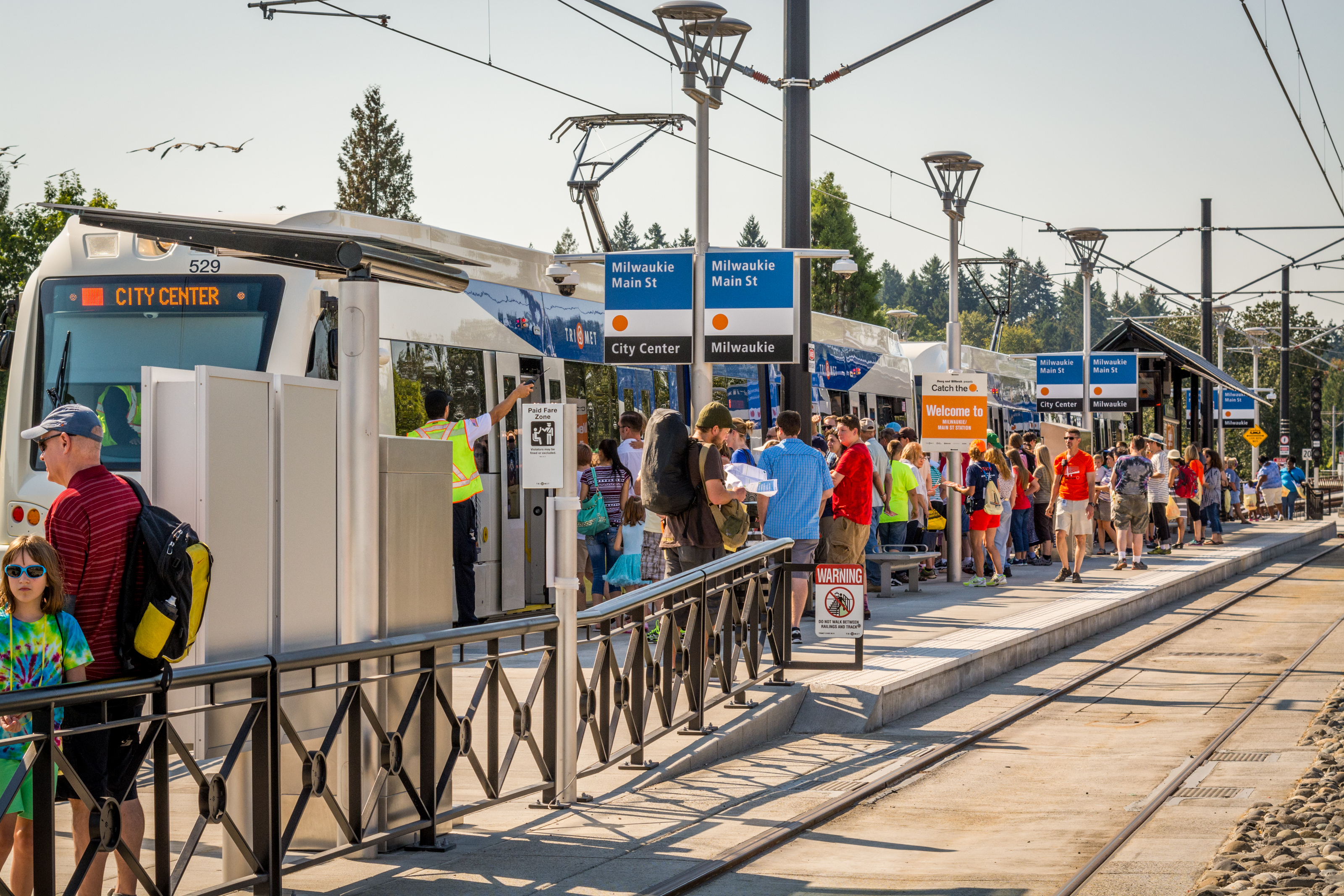 Grand Opening Celebration for TriMet's MAX Orange Line in Portland and Milwaukie, Oregon (Sept. 12, 2015). If used externally, please credit: "Photo courtesy of TriMet."